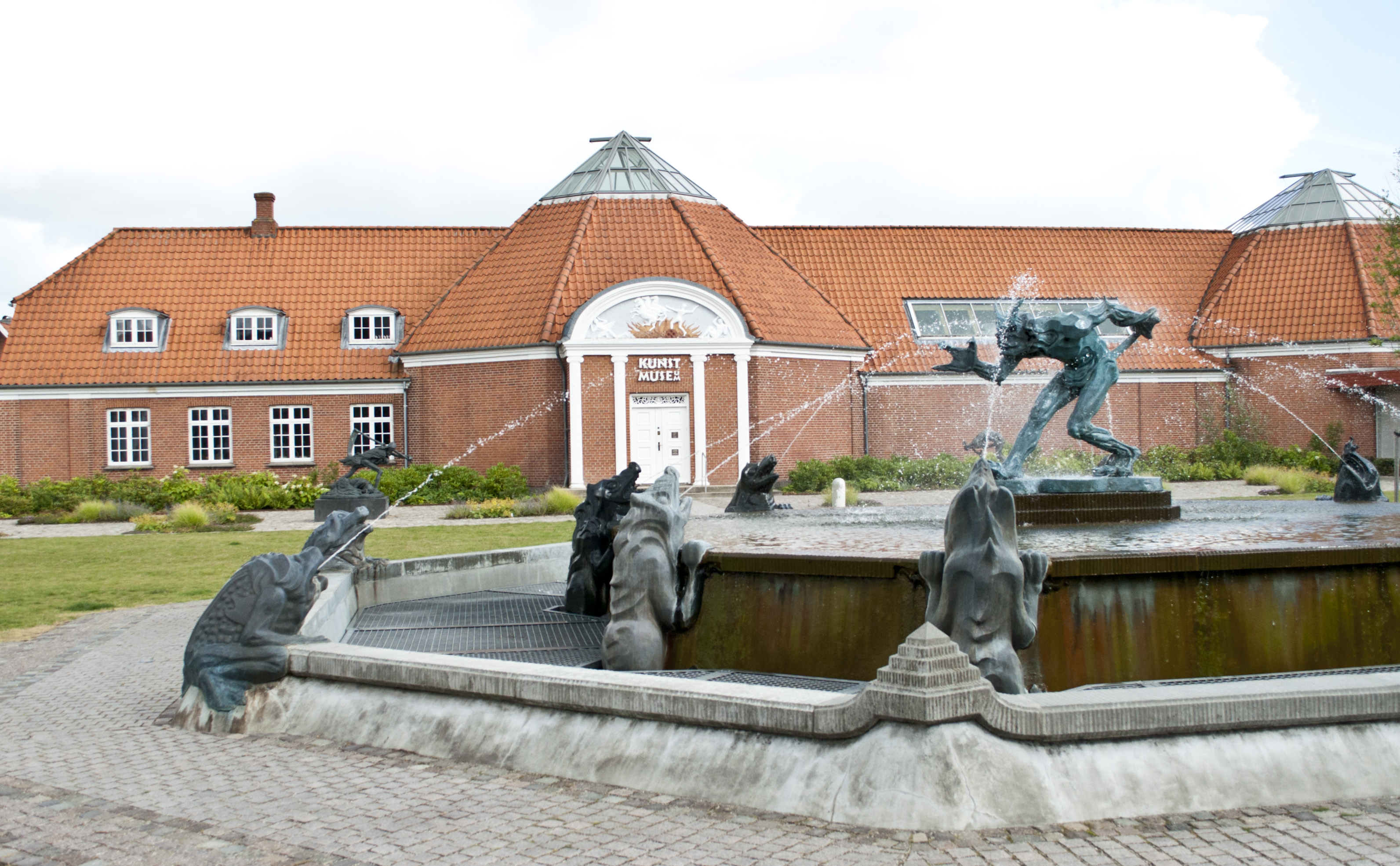 Vejen Art Museum, Denmark. In the middle of the picture, the sculpture En Trold, der vejrer Kristenkød ("A troll scenting Christian flesh") by Niels Hansen Jacobsen is shown.